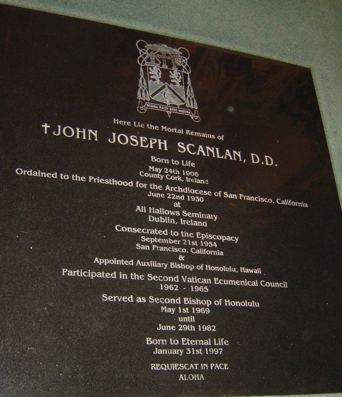 Memorial stone above the crypt of Msgr. Scanlan in the sanctuary of the Cathedral of Our Lady of Peace, Honolulu. Pic taken and uploaded by User: Aloysius Patacsil.